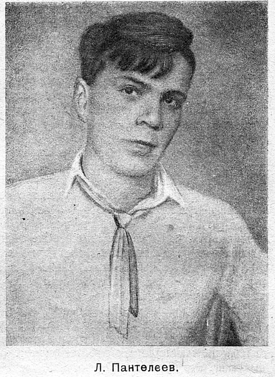 Soviet writer Leonid Pantelejew (1908-1987). Moscow, 1936.